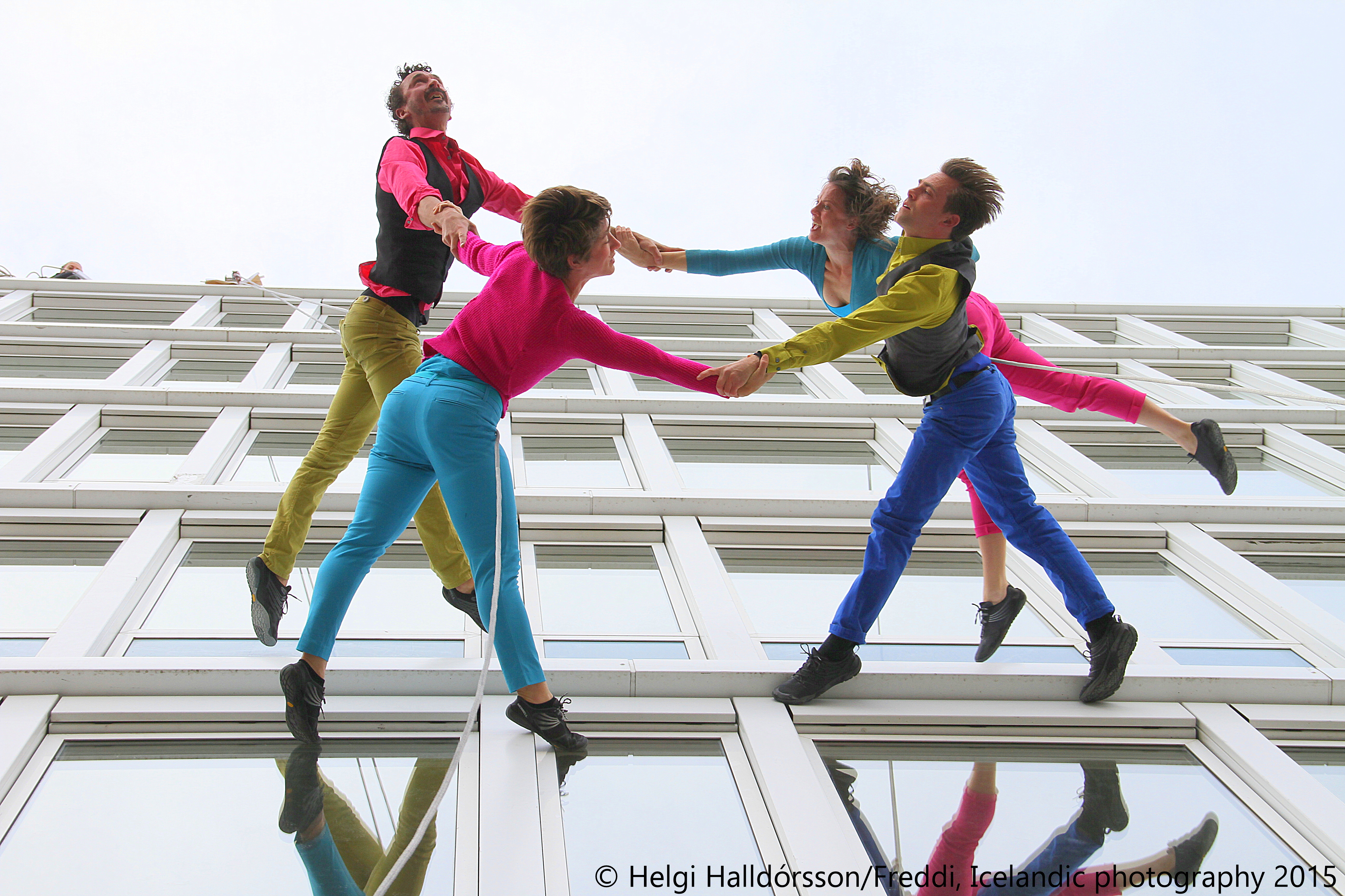 One of the most exciting works at this year’s Reykjavík Arts Festival 2015 was performance by California-based dance company BANDALOOP. They are world-famous for using rock climbing technology to dance on the sides of skyscrapers, mountains and convention halls, and this month they performed on buildings in downtown Reykjavík. This was their fist performance in Iceland by the incomparable vertical dance dance group.